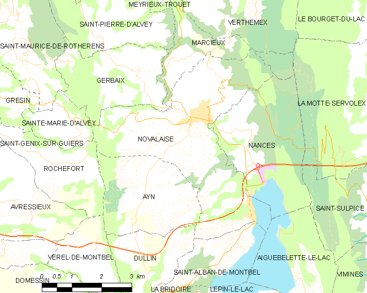 Map of French municipality